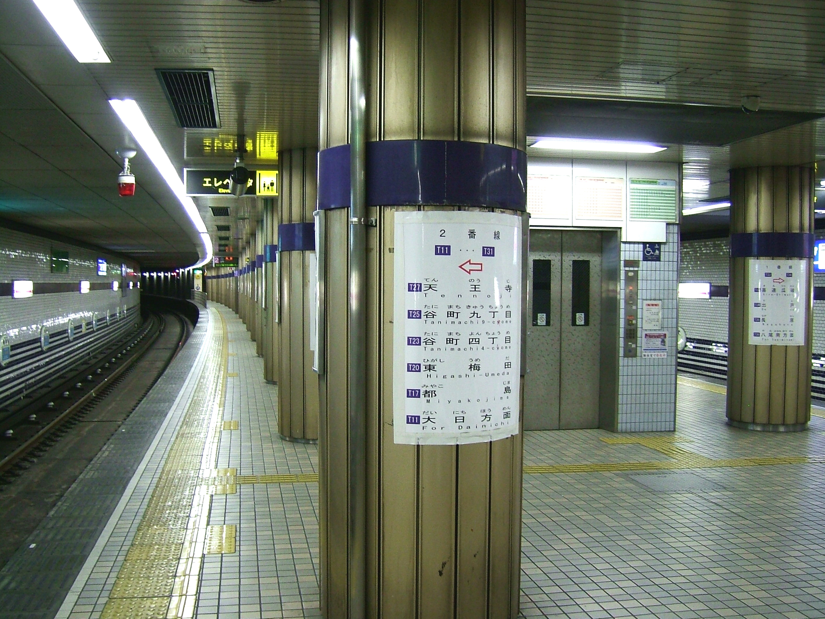 The platform at Hirano Station on the Tanimachi Line